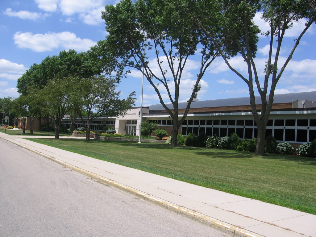 For use in Fond du Lac County and city articles.